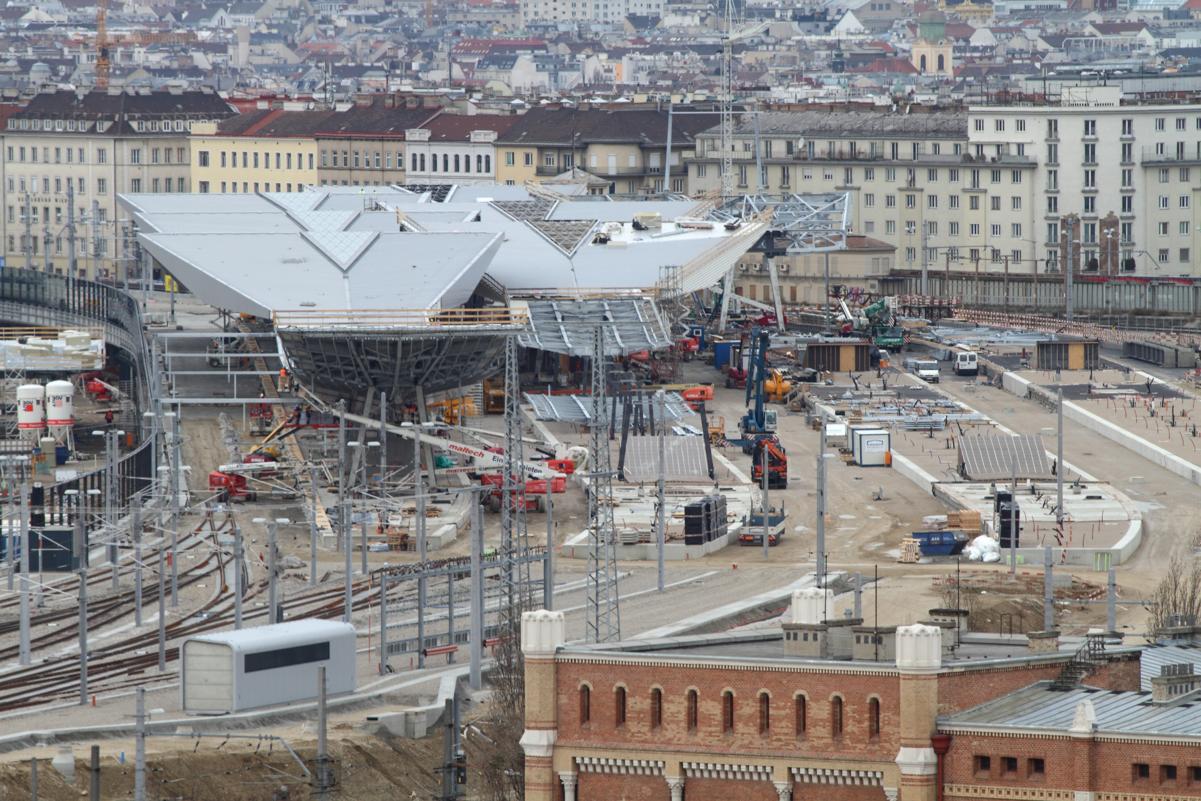 Wien Hauptbahnhof under construction, view from Vienna's Arsenal.